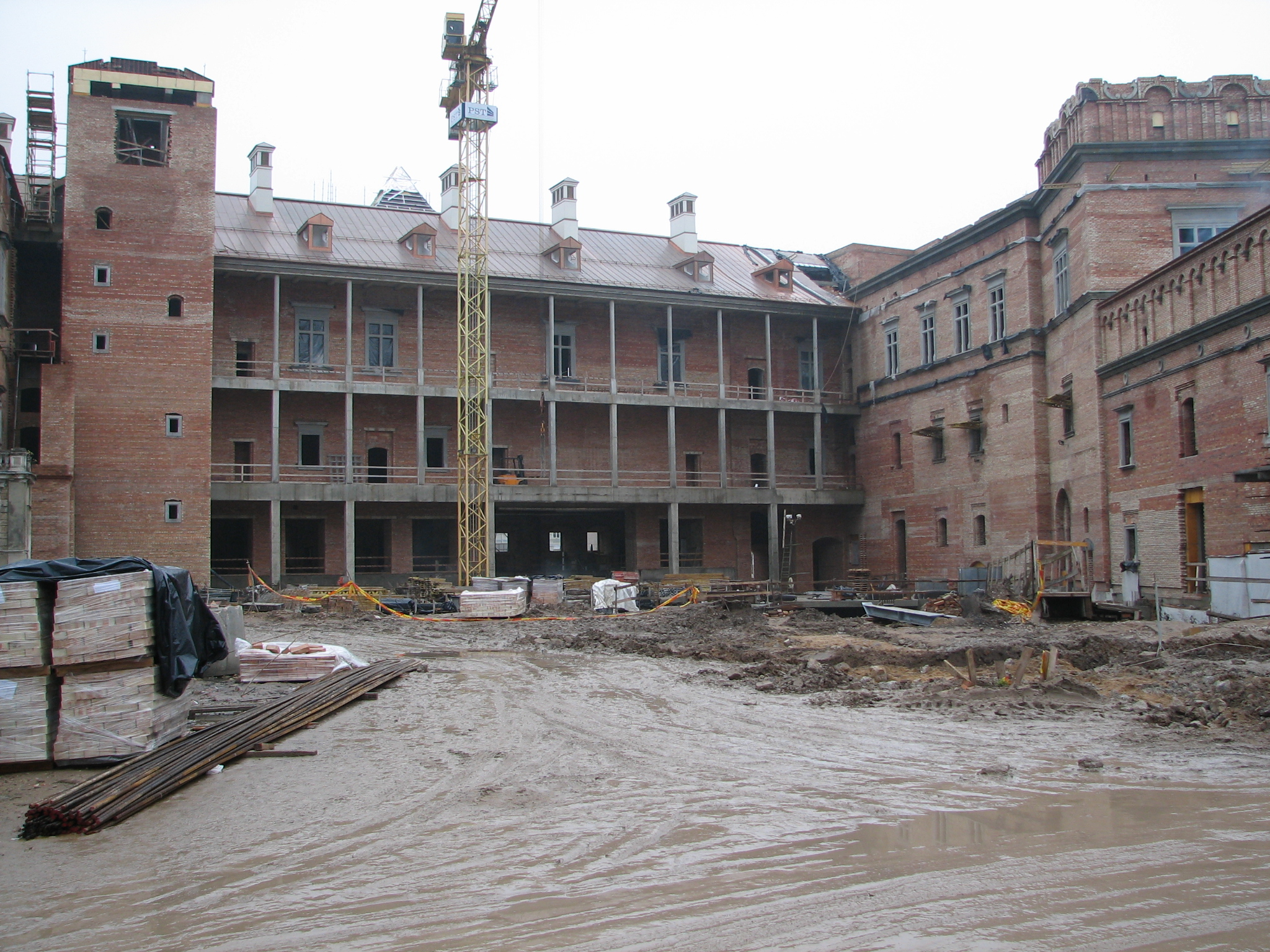 Construction of Royal Palace of Lithuania inner yard 2006 year